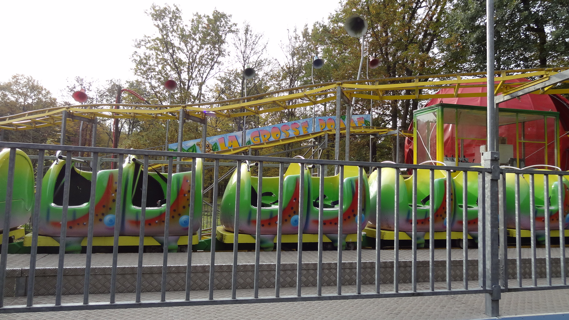 Babyland-Amiland